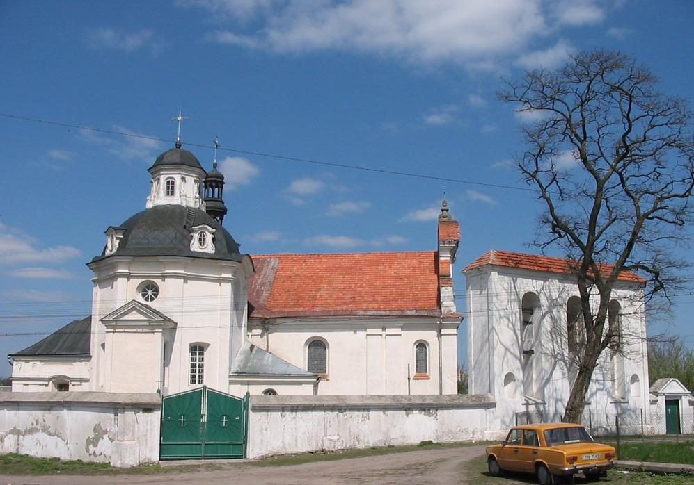 Catholic Church in Korets